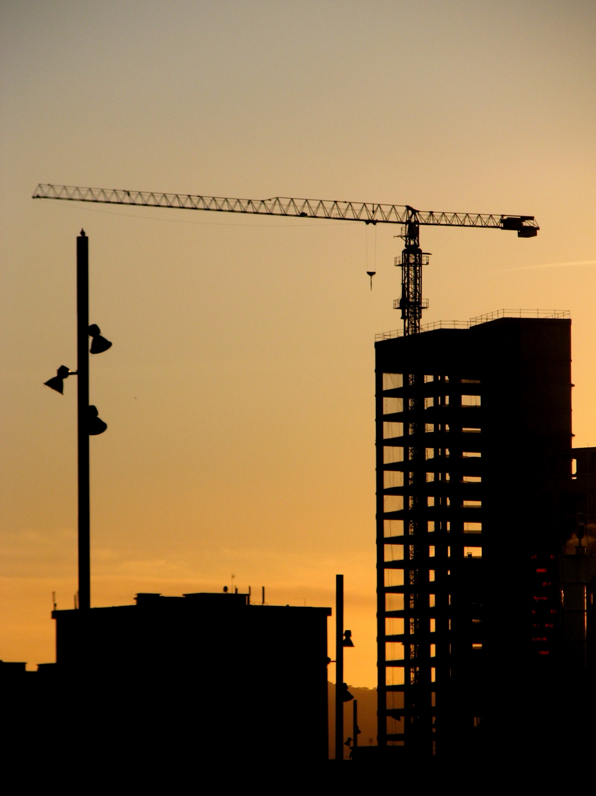 Construction at DiagonalMar, Barcelona as seen from the Forum area.